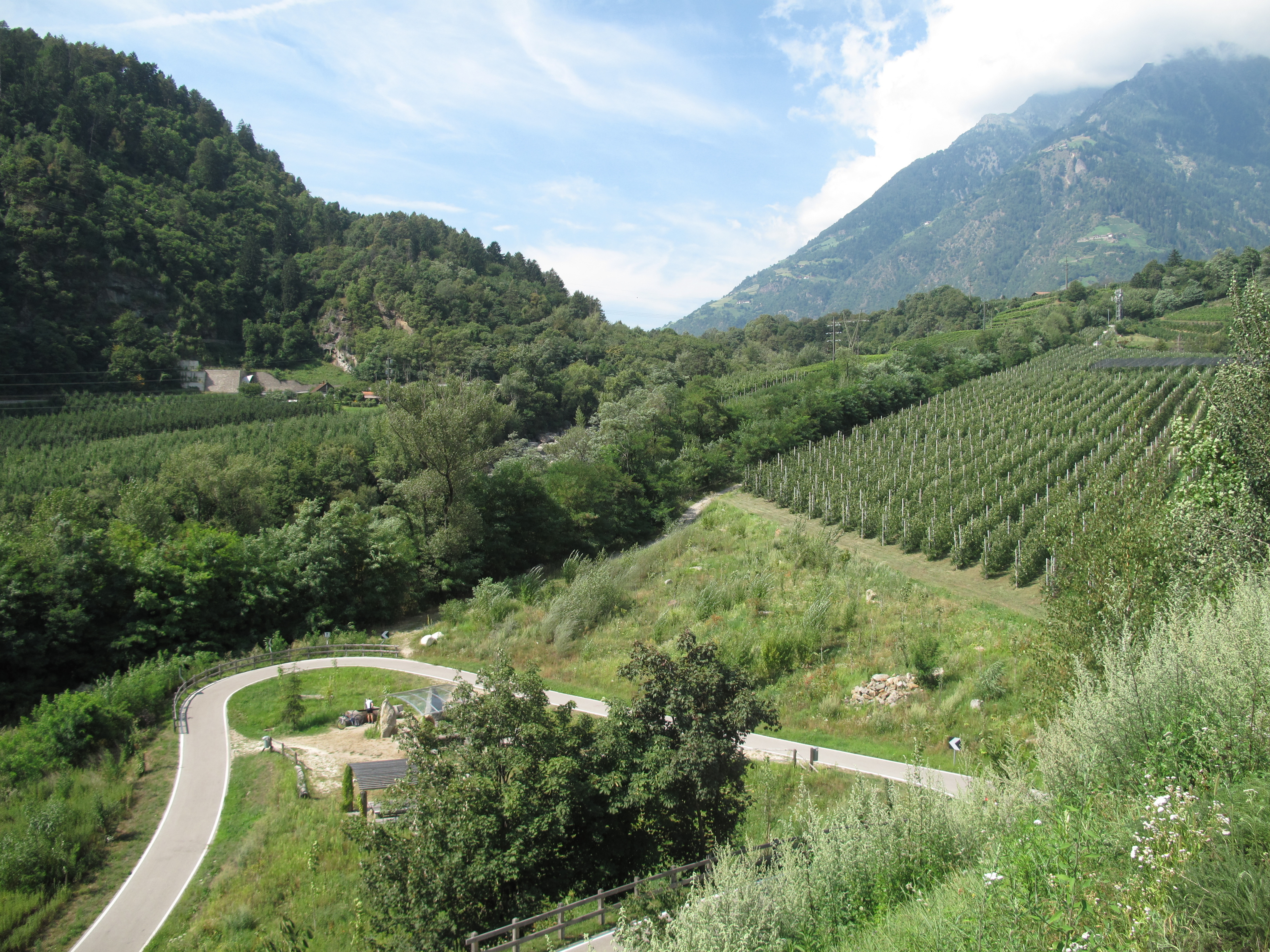 near Töll (Partschins), road panorama